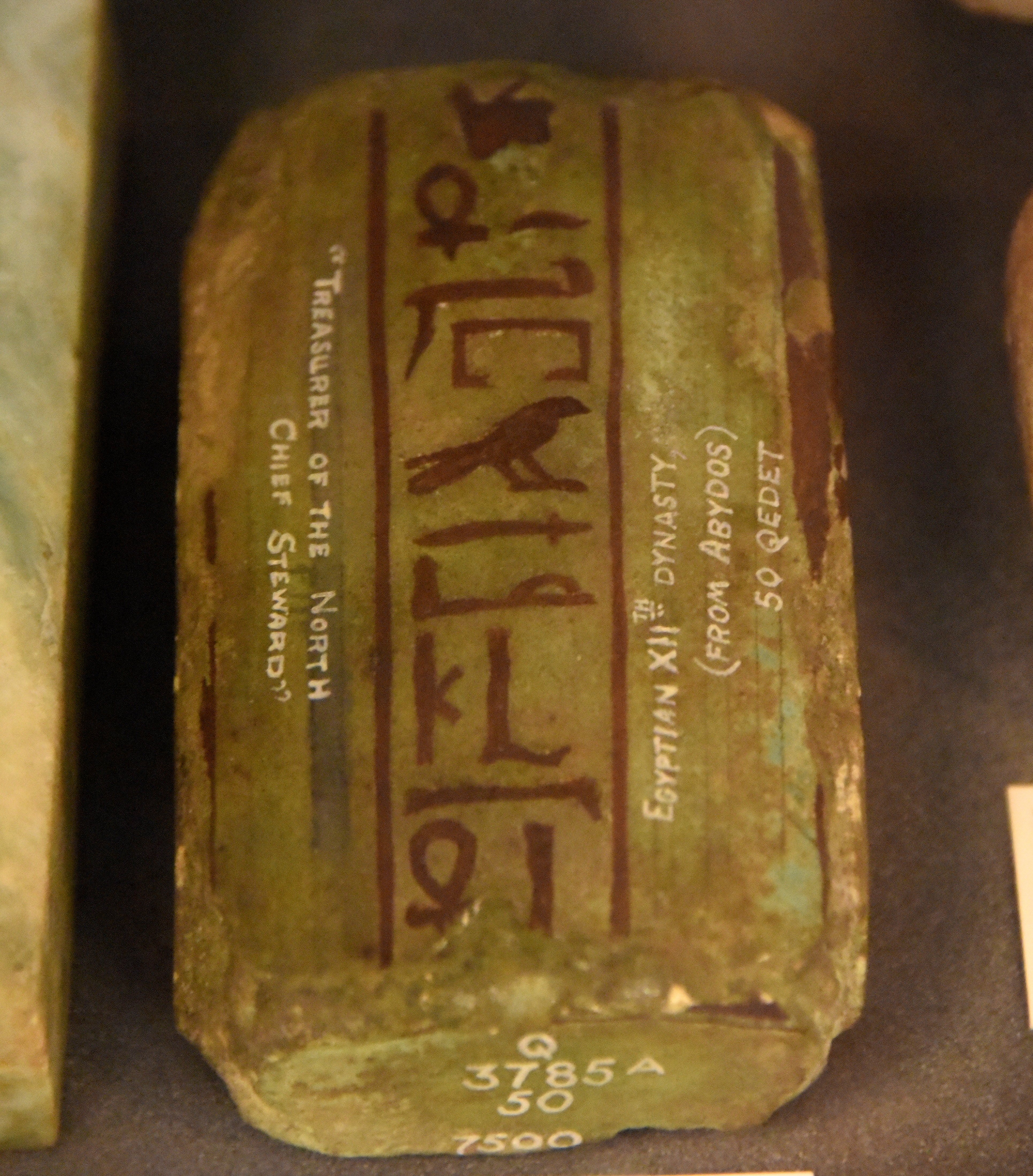 Green glazed faience weight of 50 qedet, inscribed for the high Steward Aabeni, sealer of the King. Late Middle Kingdom. From Abydos, Egypt. The Petrie Museum of Egyptian Archaeology, London. With thanks to the Petrie Museum of Egyptian Archaeology, UCL.